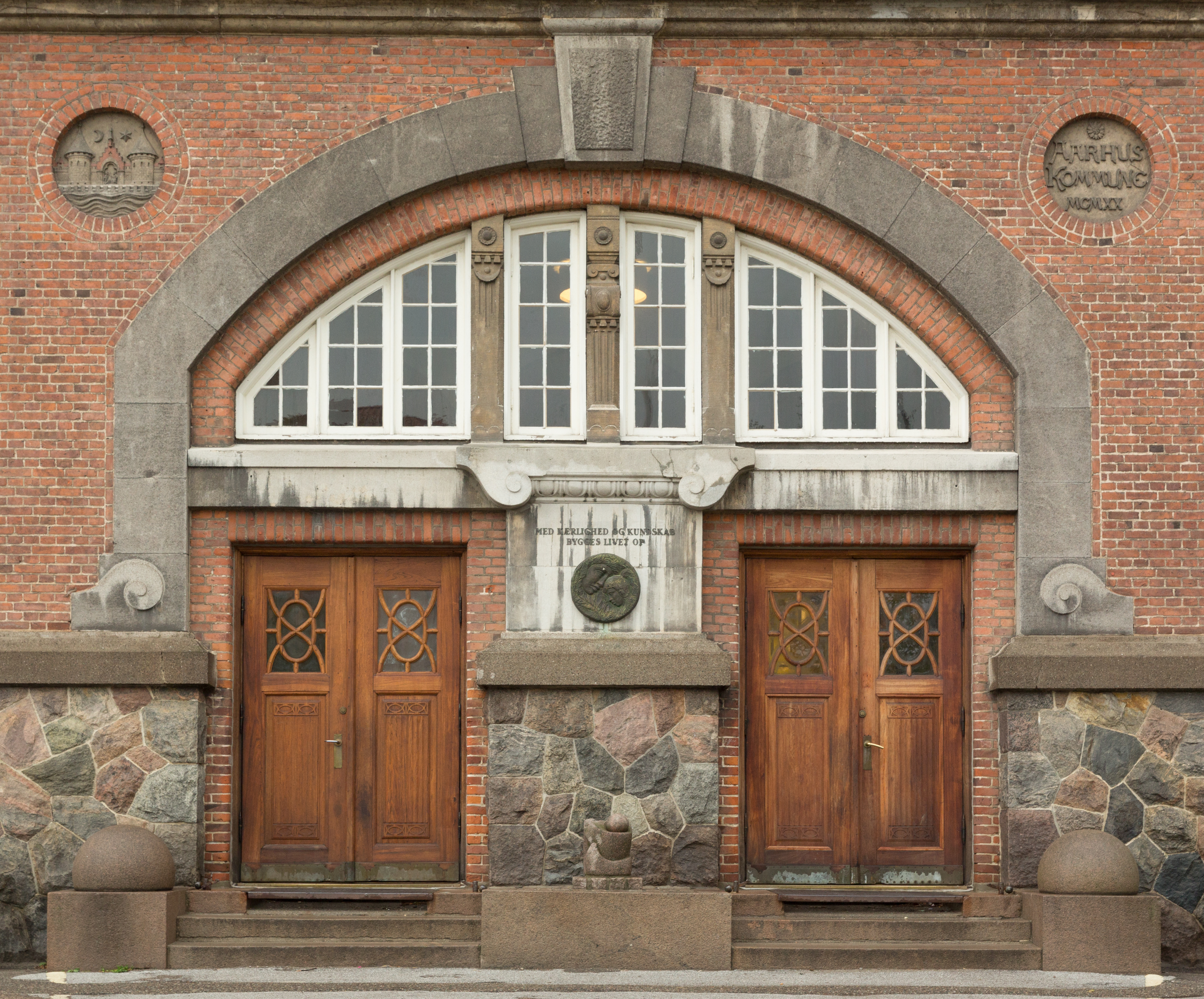 The entrance to Læsssøesgades School